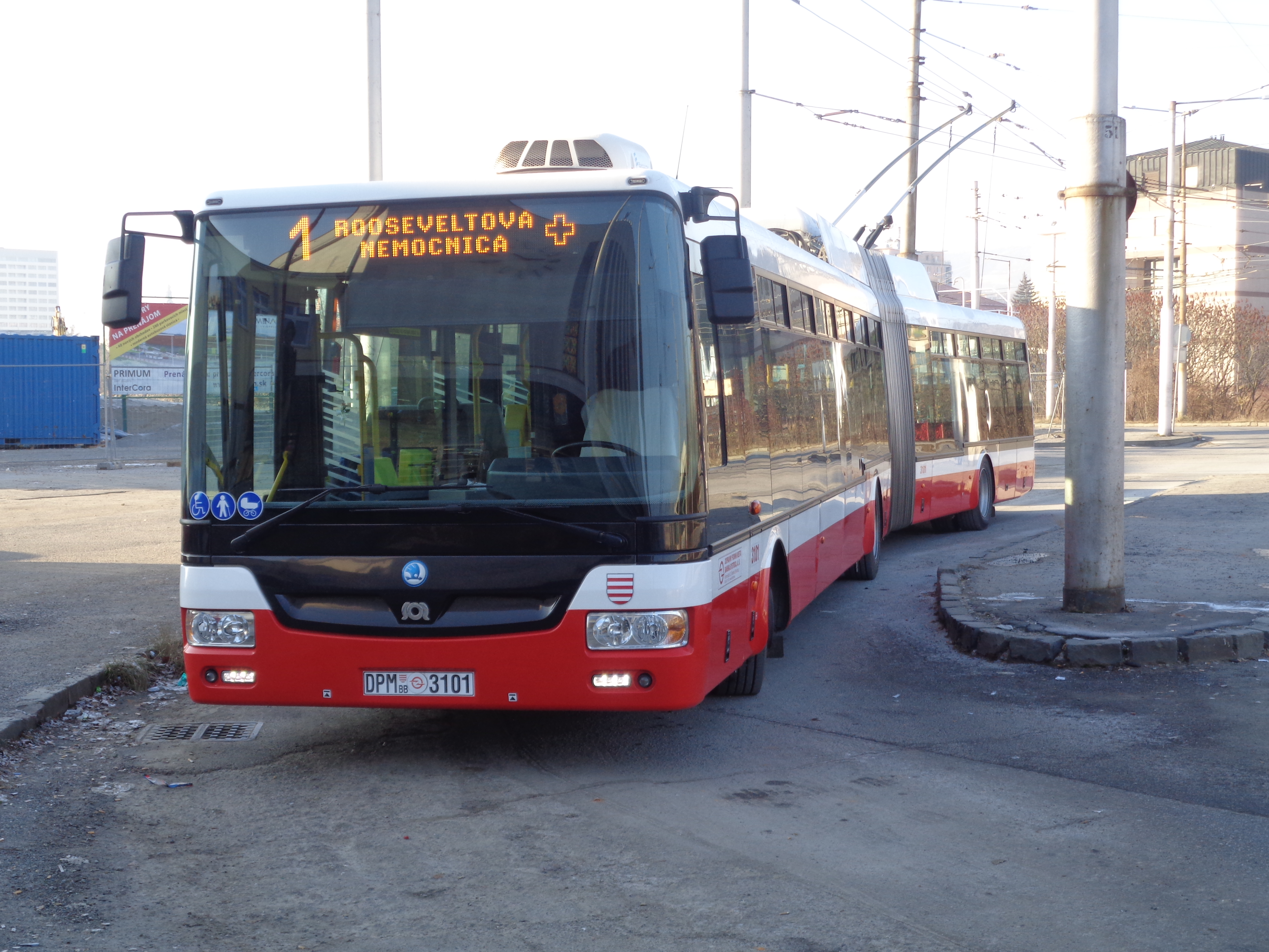 Banská Bystrica trolleybus 3101, a Škoda 31Tr SOR